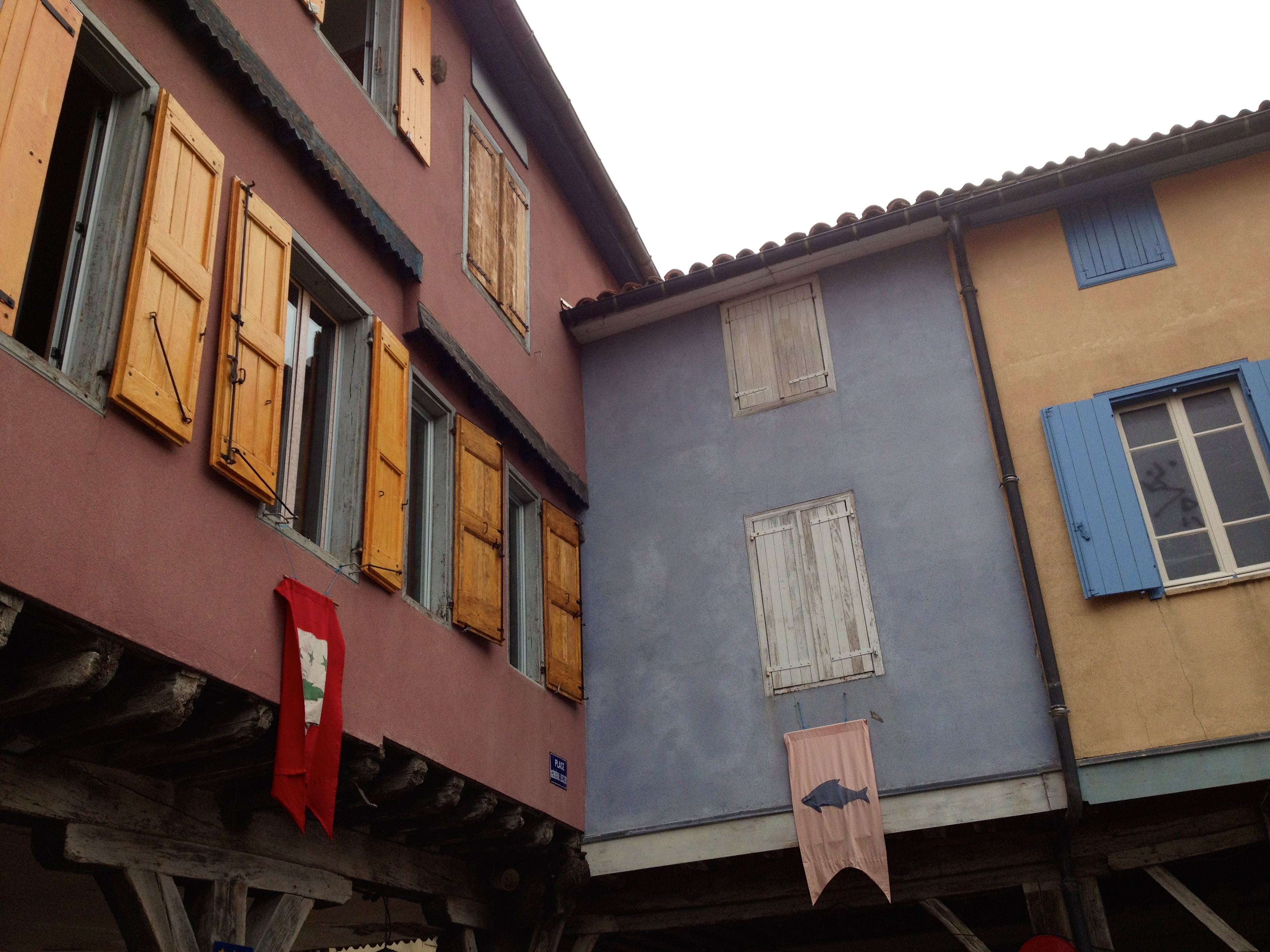 Facades of 13th century homes above the square in Mirepoix (Ariège, France).